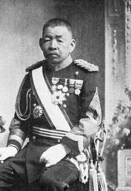 Yoshikado Kurose